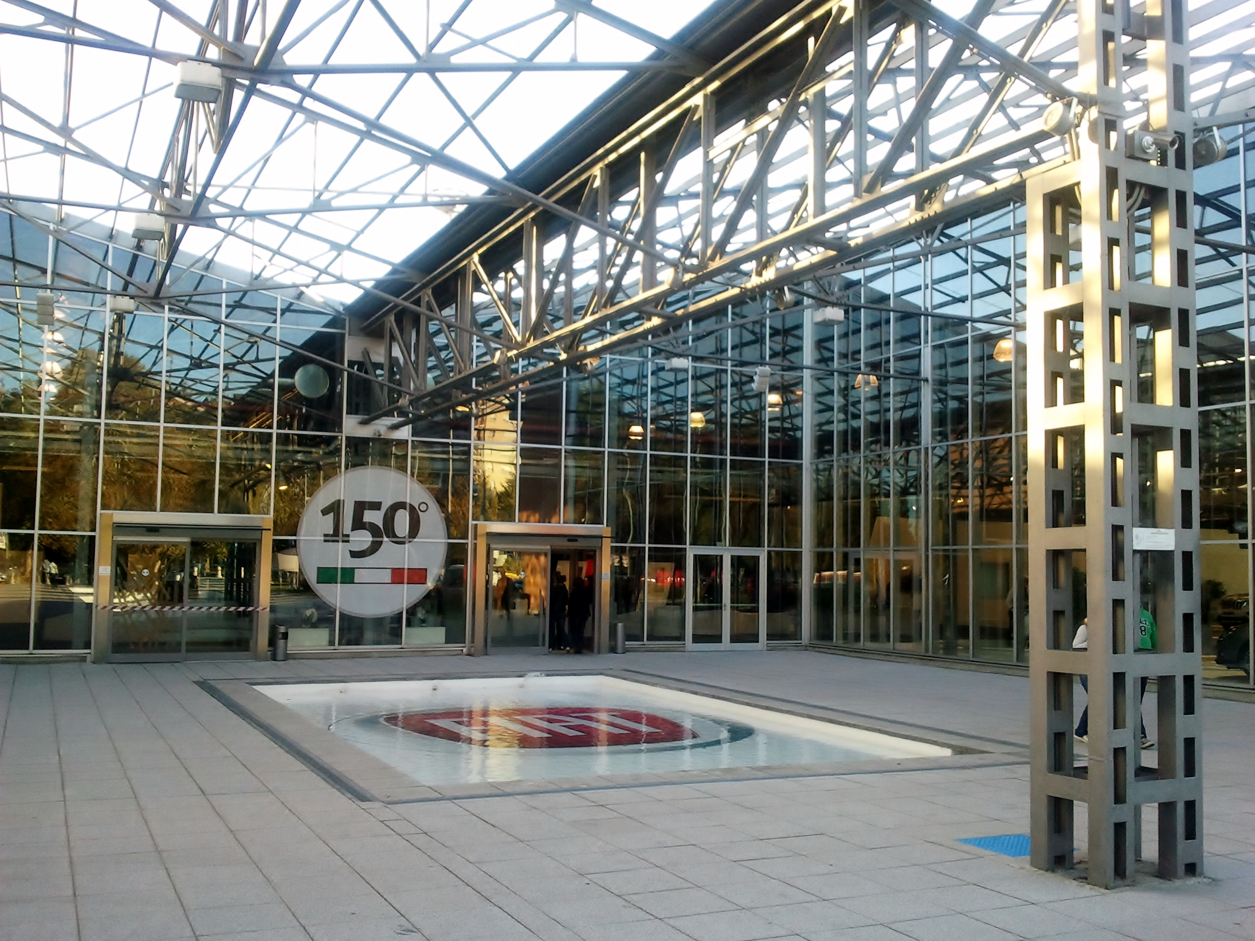 Mirafiori Motor Village. Torino. Italy